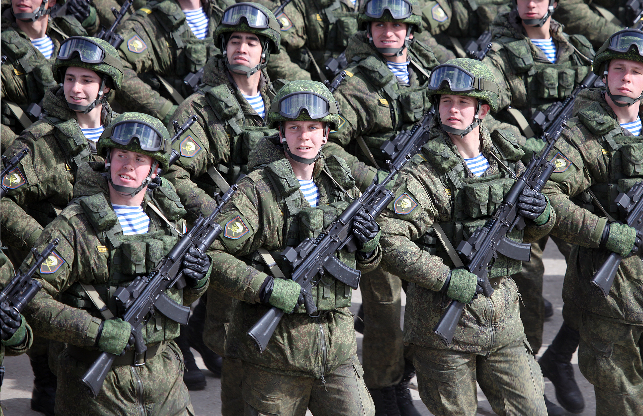 217th Guards Parachute Landing Regiment 98th Airborne Division (during the first open rehearsal in Alabino)